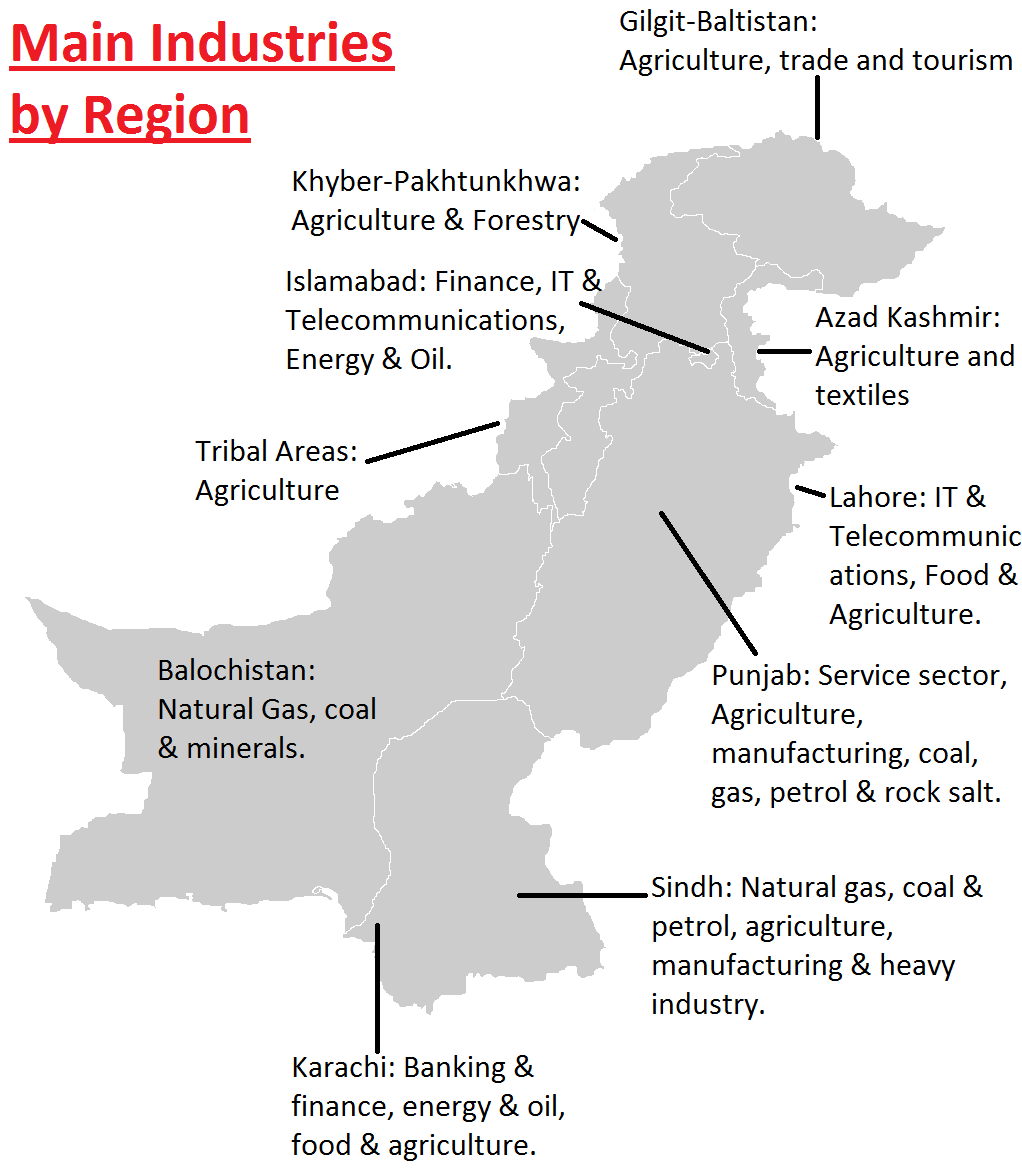 Main Industries by Region - Pakistan